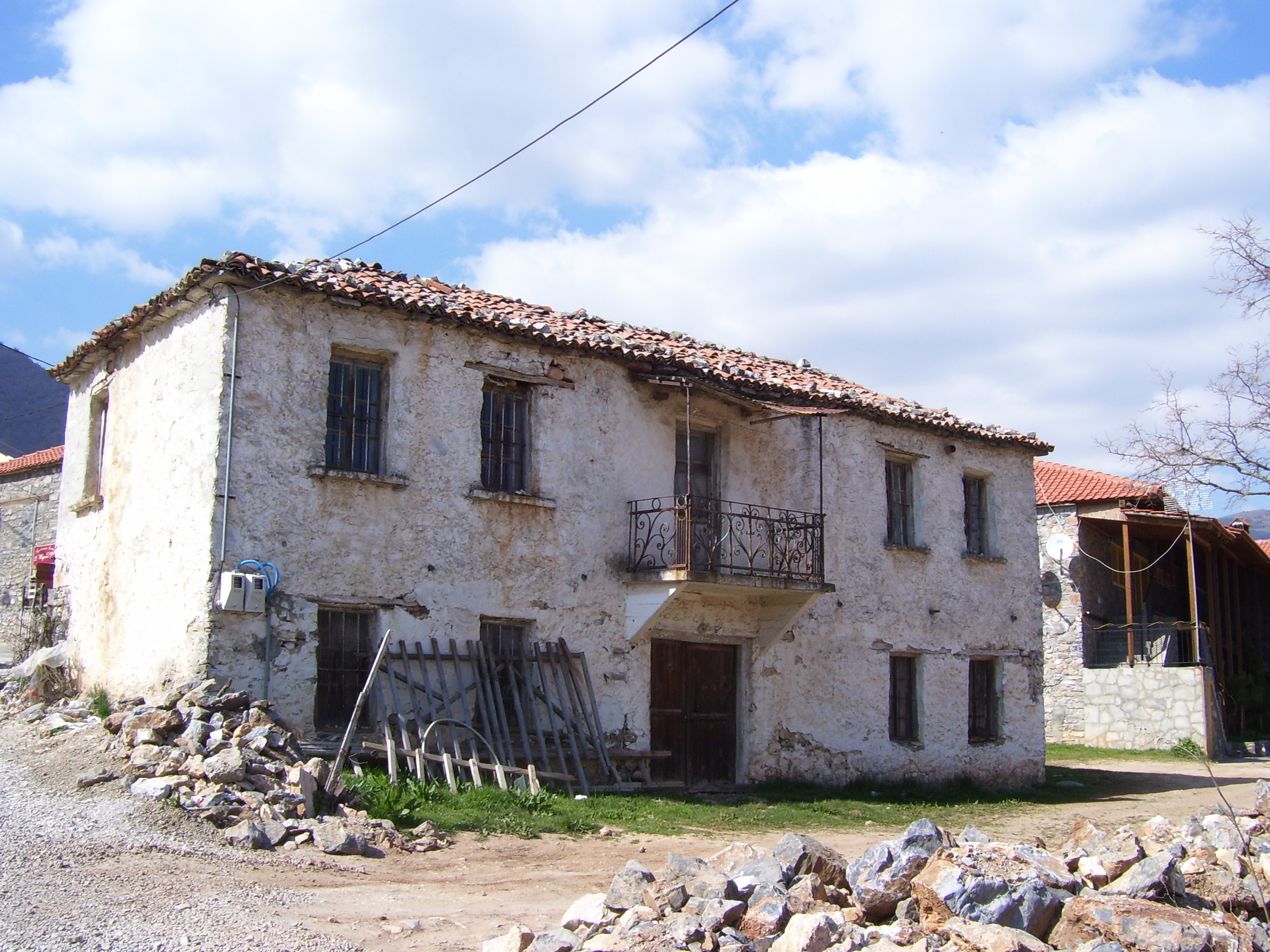 Old house in the village of Agios Athanasios Vegoritida Municipality, Pella Prefecture, Macedonia, Greece.